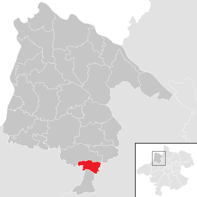 district Schärding